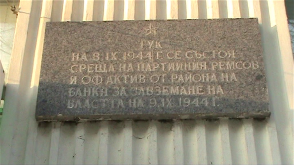 Commemorative plaque in Bankya, Bulgaria, that says: "Here on September 8, 1944 were held a meeting of the Party's Workers Youth League and Fatherland Front (FF) members from the region of Bankya to seize power on September 9, 1944"